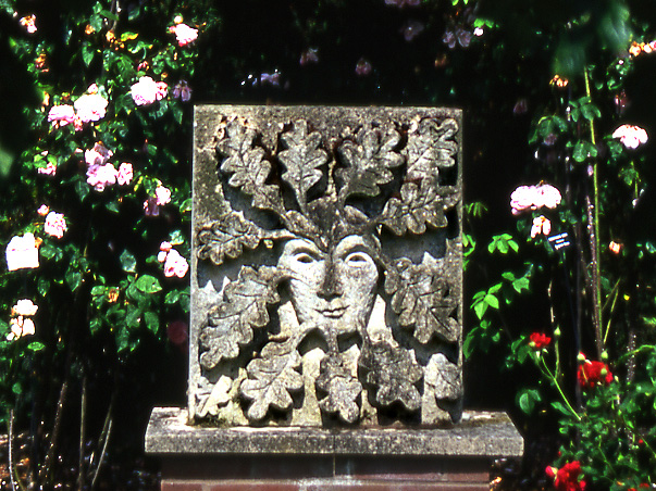 A scan from a 35mm photograph which I took in the display gardens at David Austin Roses, Albrighton, near Wolverhampton, England in 2005. It shows a carving of a foliate head, or "Green Man", by Mrs Pat Austin. This scan is in the Public Domain (however, I retain ownership and copyright of the original transparency and any higher-resolution scans derived from it). If you use the photo outside Wikipedia, a photographer's credit (Simon Garbutt) would be appreciated. SiGarb 23:55, 22 November 2005 (UTC)